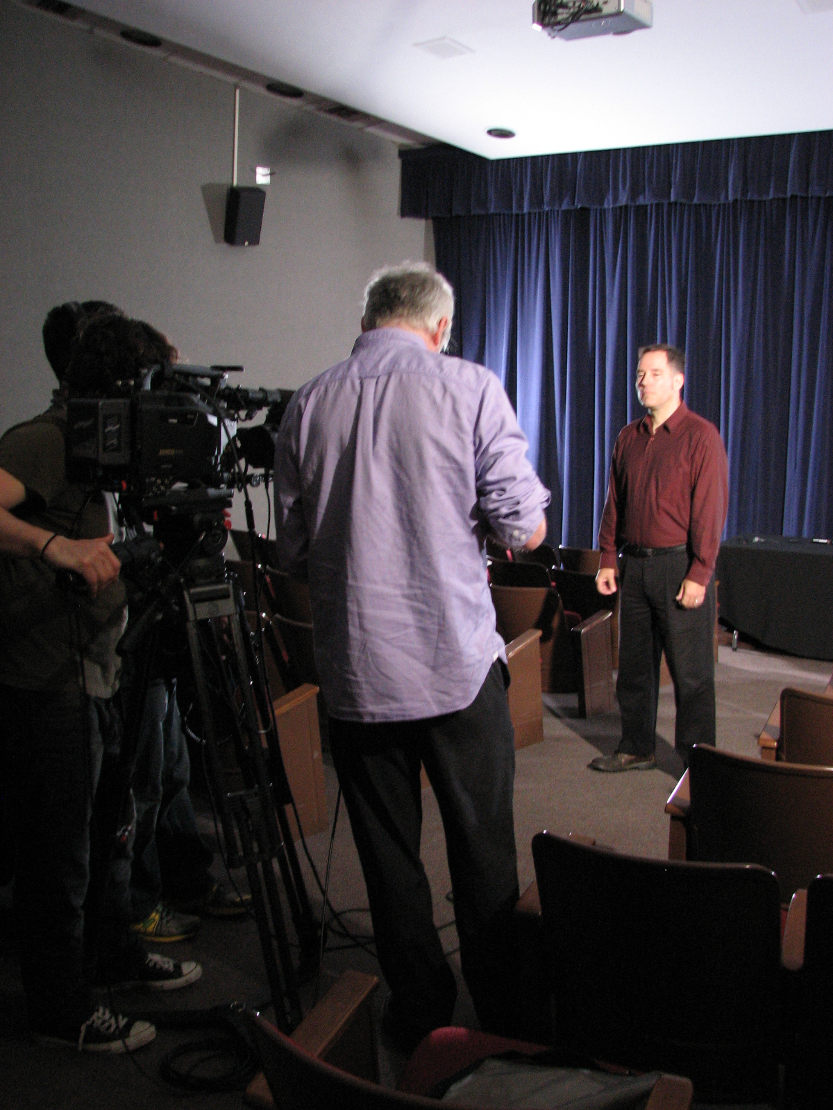 Jim Underdown IIG is featured on Discovery Channel's episode of Weird or What? "Mind Control War" August 2010.